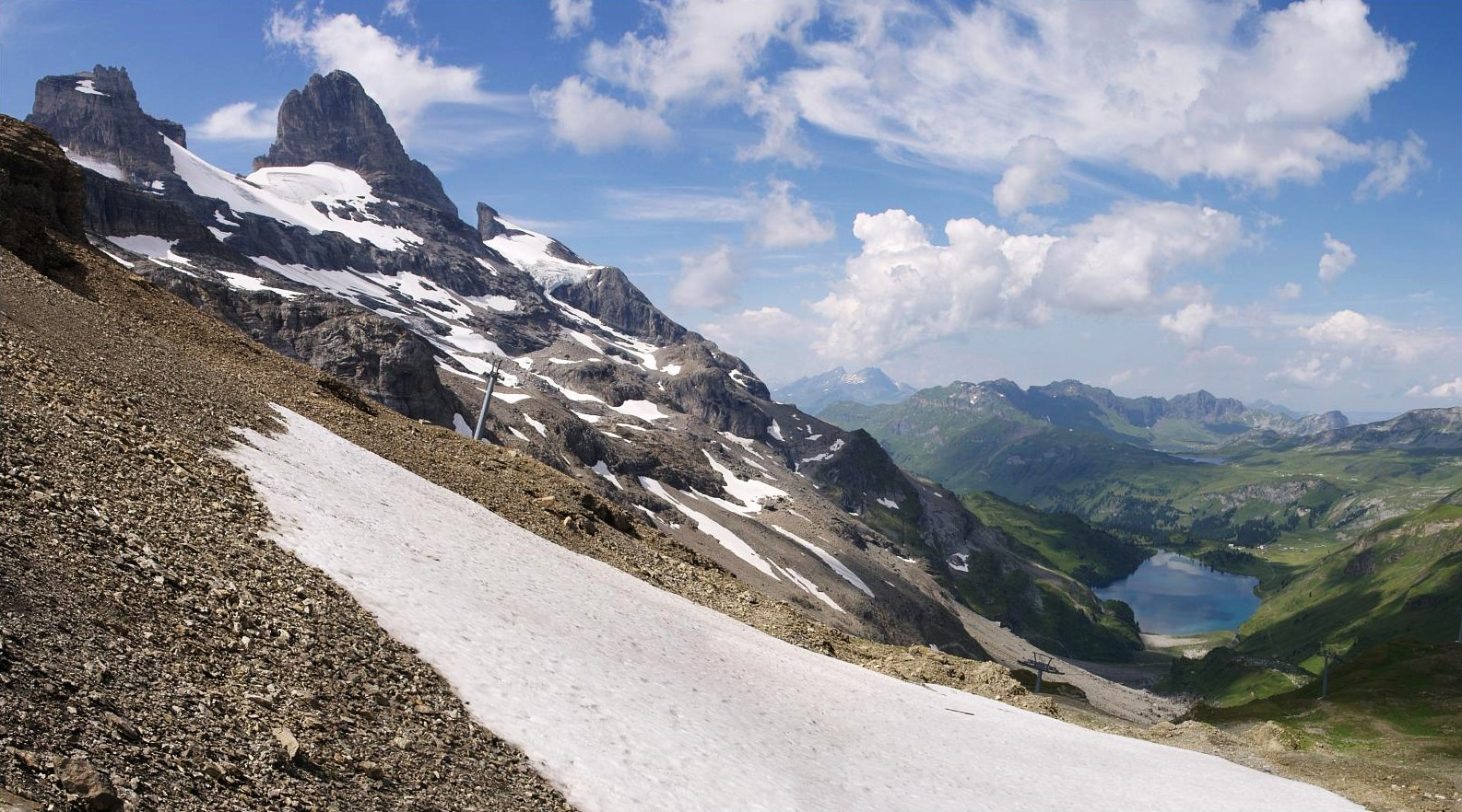 Wendenstöcke and Engstlensee below. View from Jochstock; near Engelberg, Switzerland.